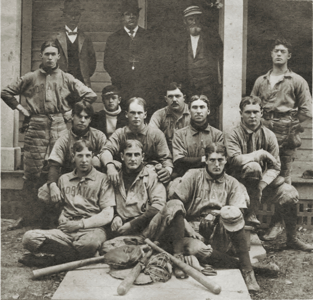 The Moravia, New York, baseball team of 1899. The "Moravians" were the Amateur Champions of Central New York. Lew Carr is in the 2nd row from front, 2nd from the left. (Photo courtesy of the Cayuga-Owasco Lakes Historical Society)